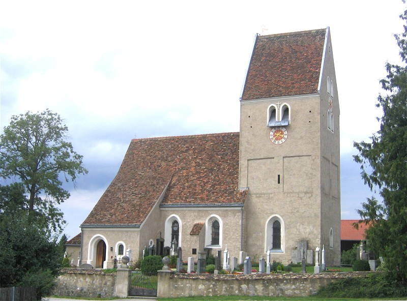 Großdingharting, St Lawrence Parish Church from south-east.